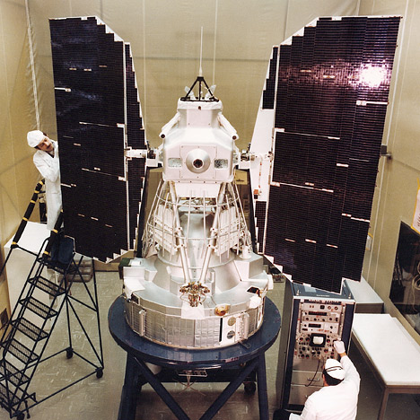 Two technicians examine Landsat 3 during its assembly in 1977. The earliest Landsat satellites predate most contemporary computer technology.